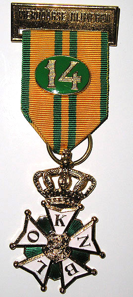 Gold Medal (14x) - International Nijmegen Four Days Marches